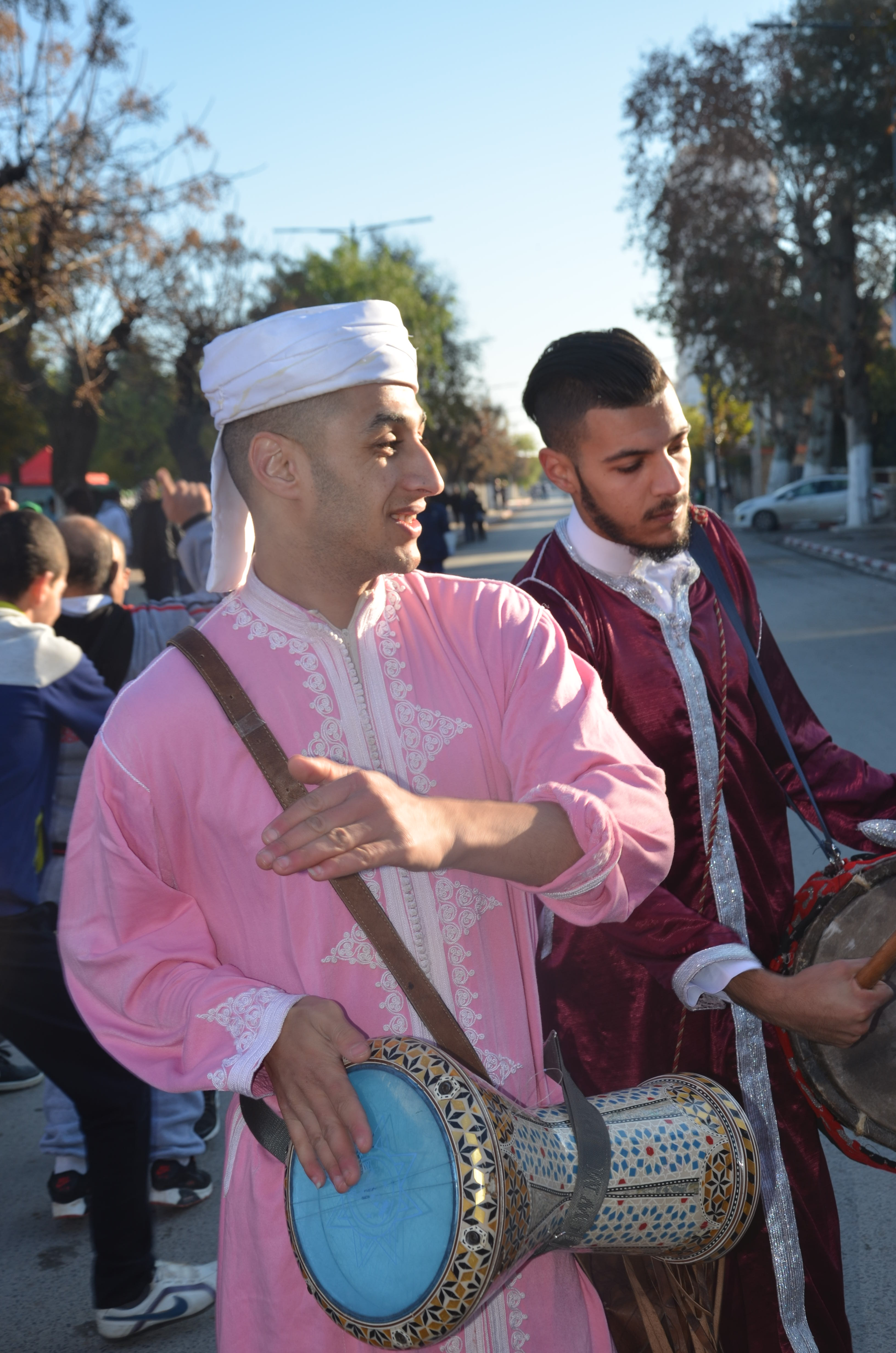 This is an image with the theme "Play" from: Algeria